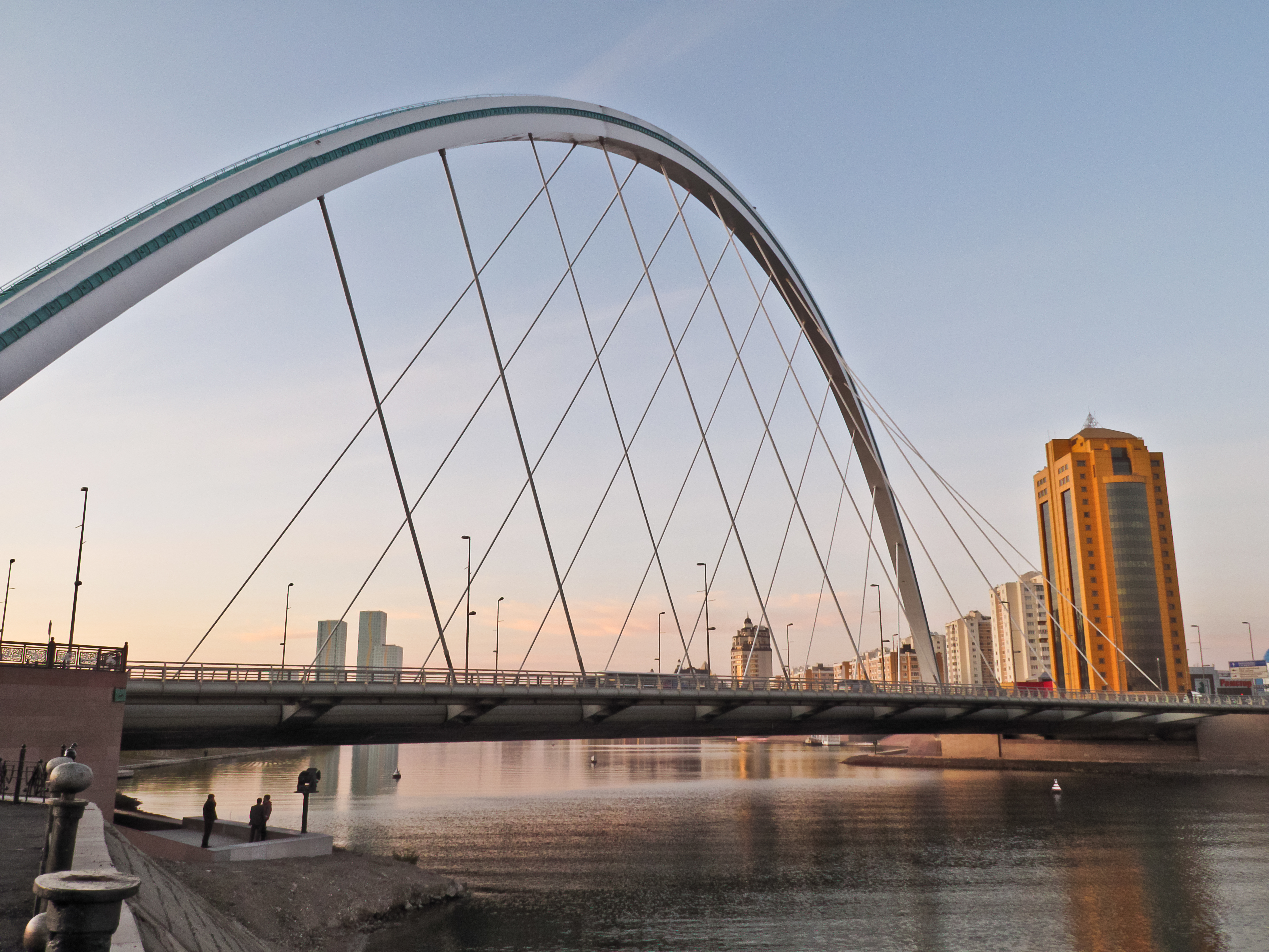 Nur-Sultan is being built up as the new capital of Kazakhstan